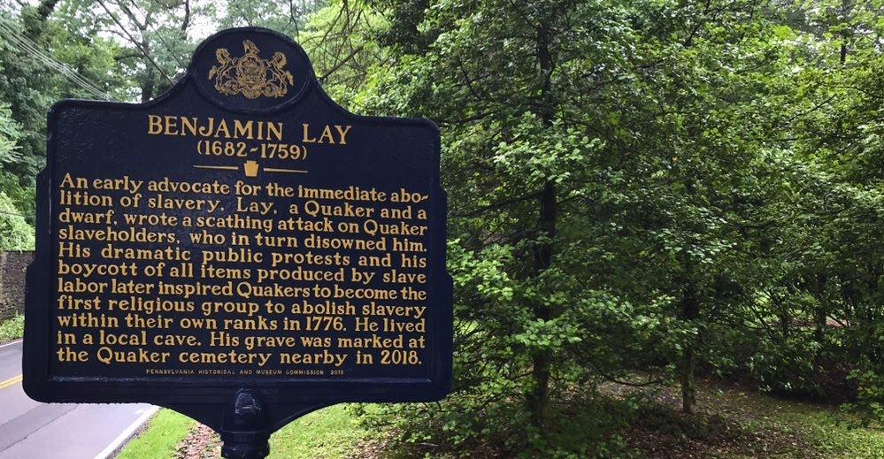 This sign is just outside the Abington Quaker Meeting house, where Benjamin Lay and Sarah Lay are buried. The sign reads: An early advocate for the immediate abolition of slavery. Lay, a Quaker and a dwarf, wrote a scathing attack on Quaker slaveholders, who in turn disowned him. His dramatic public protests and his boycott of all items produced by slave labor later inspired Quakers to become the first religious group to abolish slavery within their own ranks in 1776. He lived in a local cave. His grave was marked at the Quaker cemetery nearby in 2018.